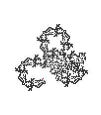 The turmite specified as {1, 2, 0}, {1, 2, 1 , 0, 1, 0}, {0, 1, 1 } shown at 8342 timesteps. This string is a curly-bracketed table of n_states rows and n_colors columns, where each entry is a triple of integers. The elements of each triple are: a) new color of the square, b) direction(s) for the turmite to turn: 1=noturn, 2=right, 4=u-turn, 8=left, c) new internal state of the turmite. For example, the triple {1,2,1} says: a) set the color of the square to 1, b) turn right (2), c) adopt state 1 and move forward one square.